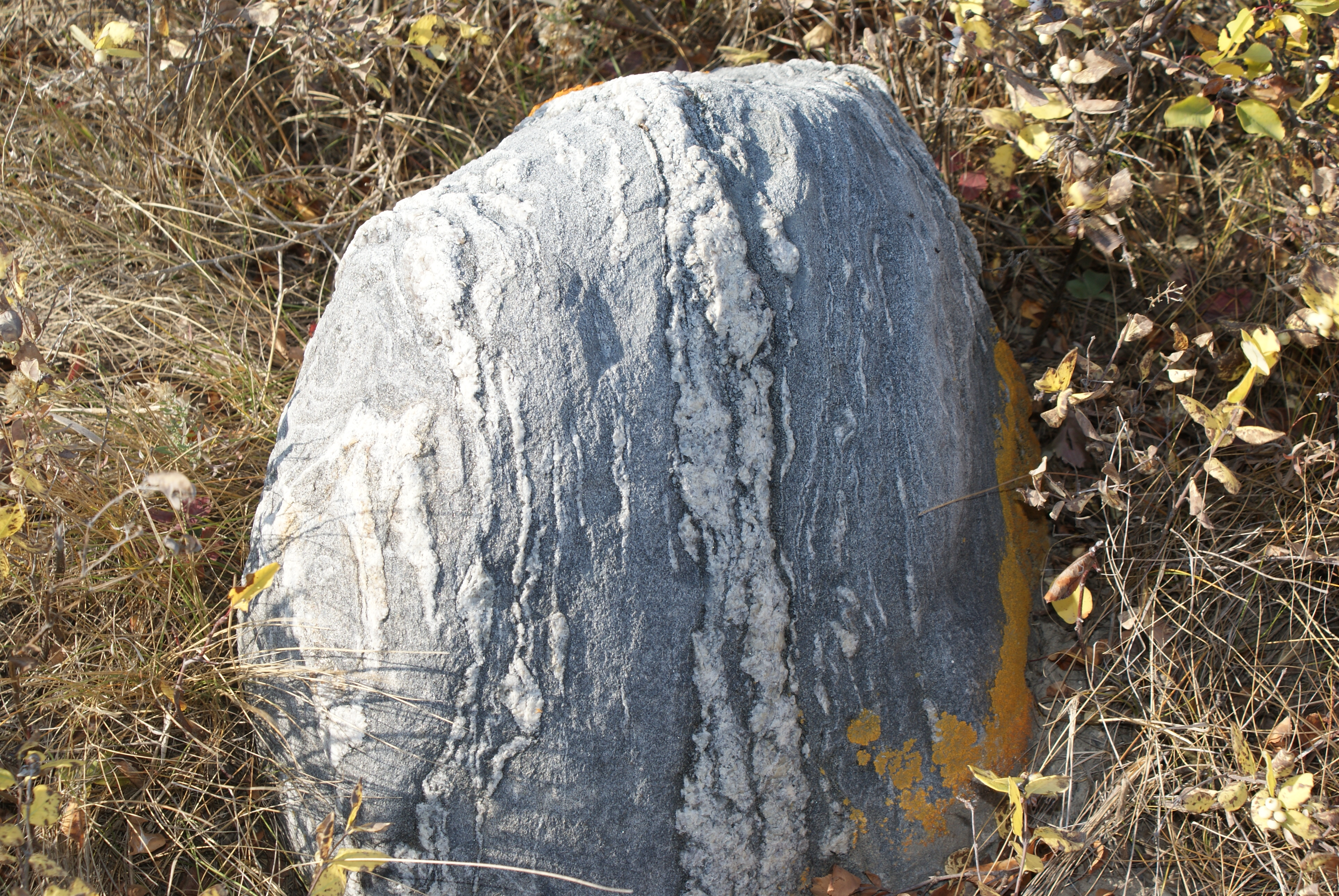 Stripy rock with orange colured lichen growing upon it at the top of the South Saskatchewan River bank.